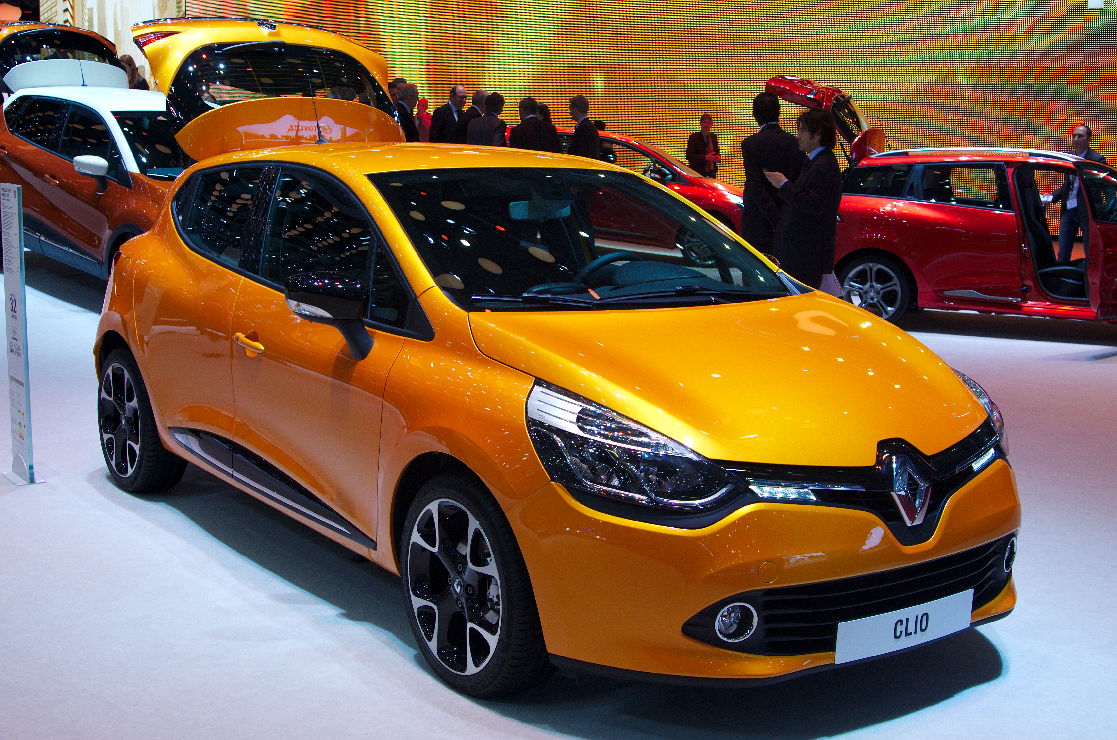 Geneva MotorShow 2013 - Renault Clio